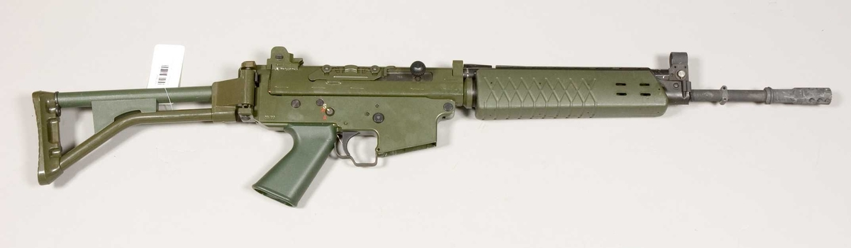 Automatkarbin 5 or just Ak 5, is the Swedish-made version of the FN FNC assault rifle with certain modifications.